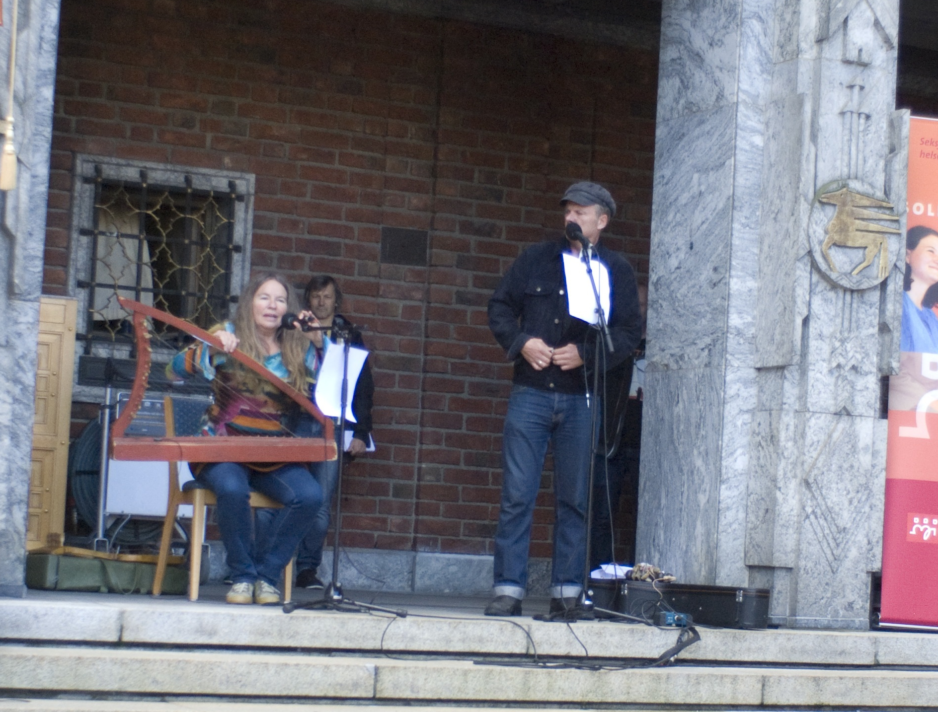 Musicians Tone Hulbækmo and John Ivar Bye performing together at Oslo Rådhus